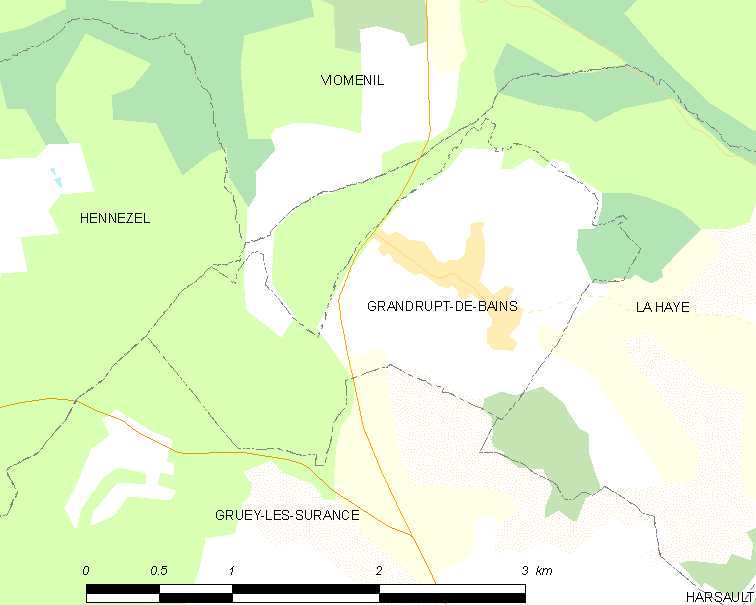 Map of French municipality Grandrupt-de-Bains